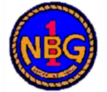 Naval Beach Group ONE unit patch